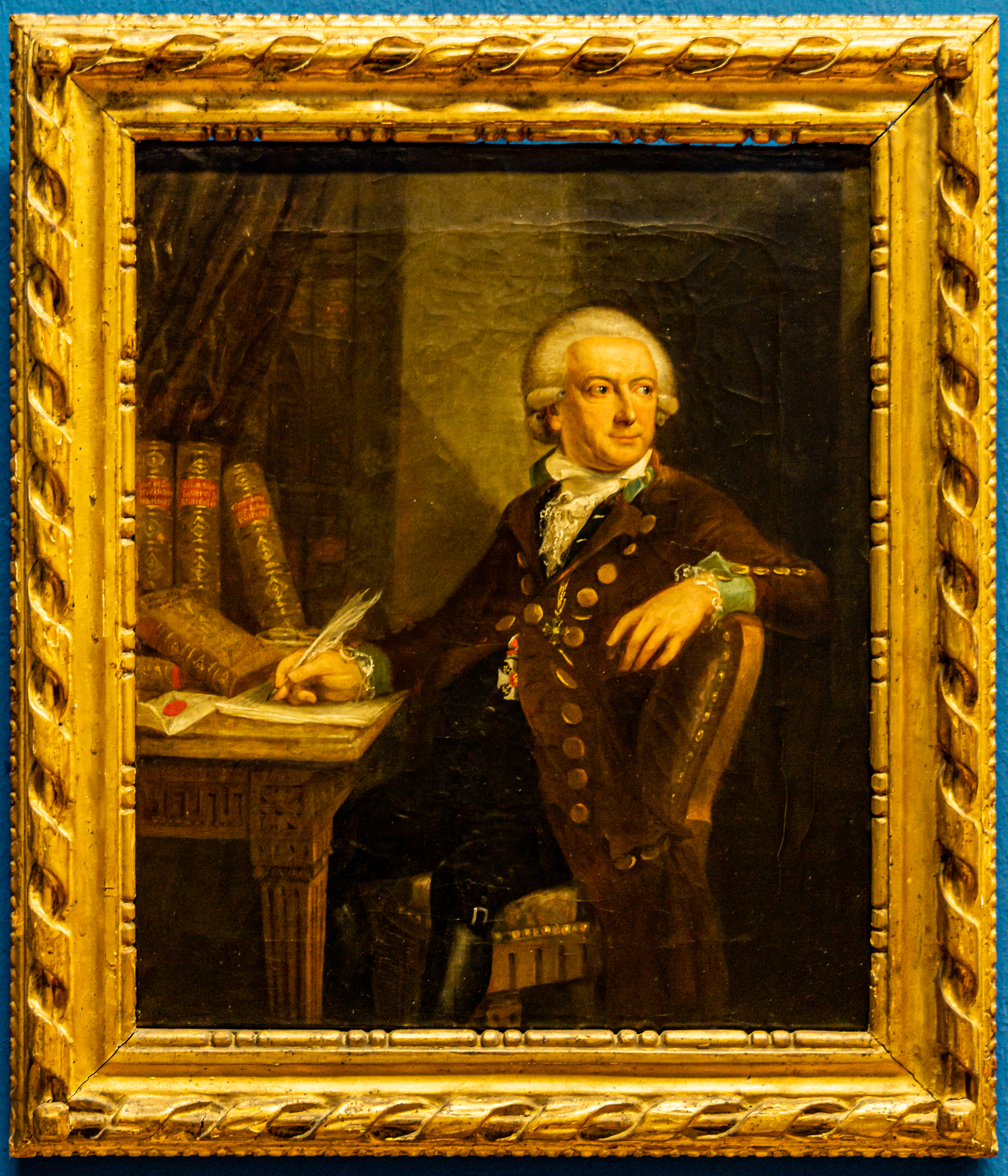 Engelbert Anton Maria von Wrede zu Meschede